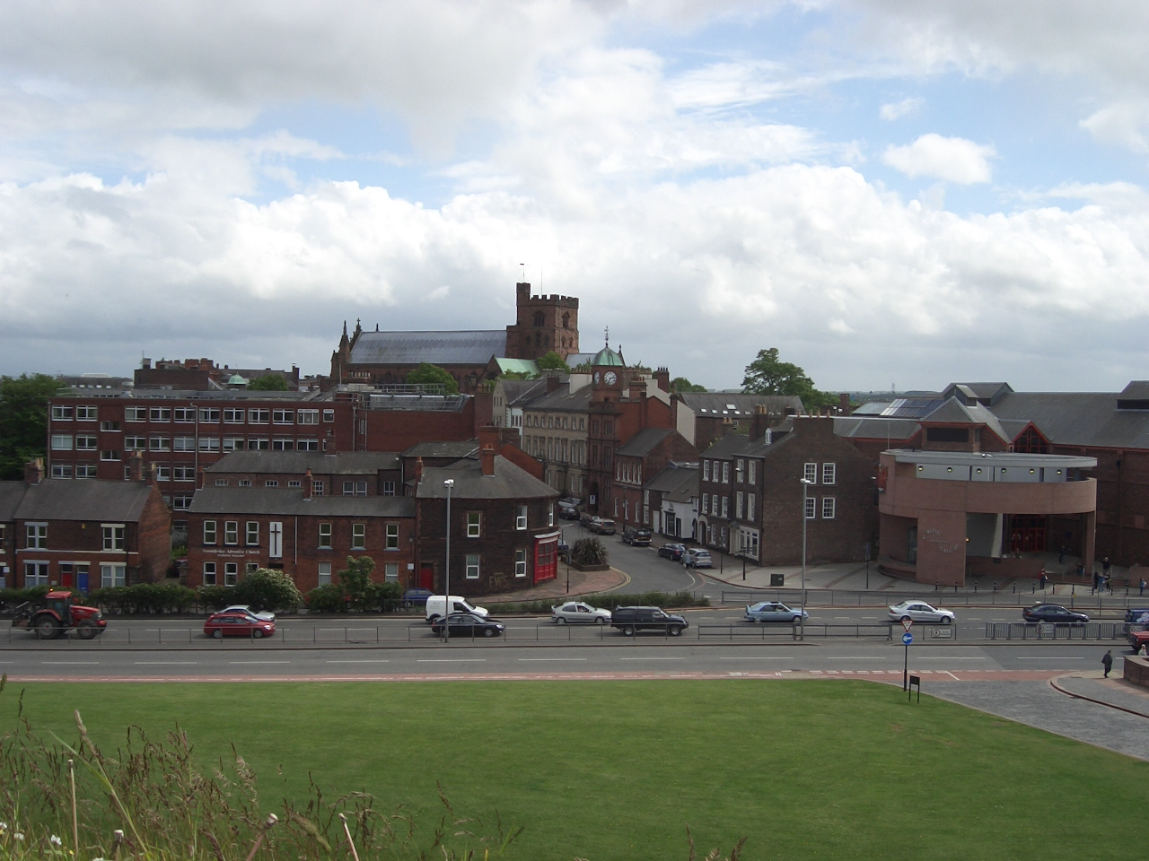 My photo of carlisle from the castle